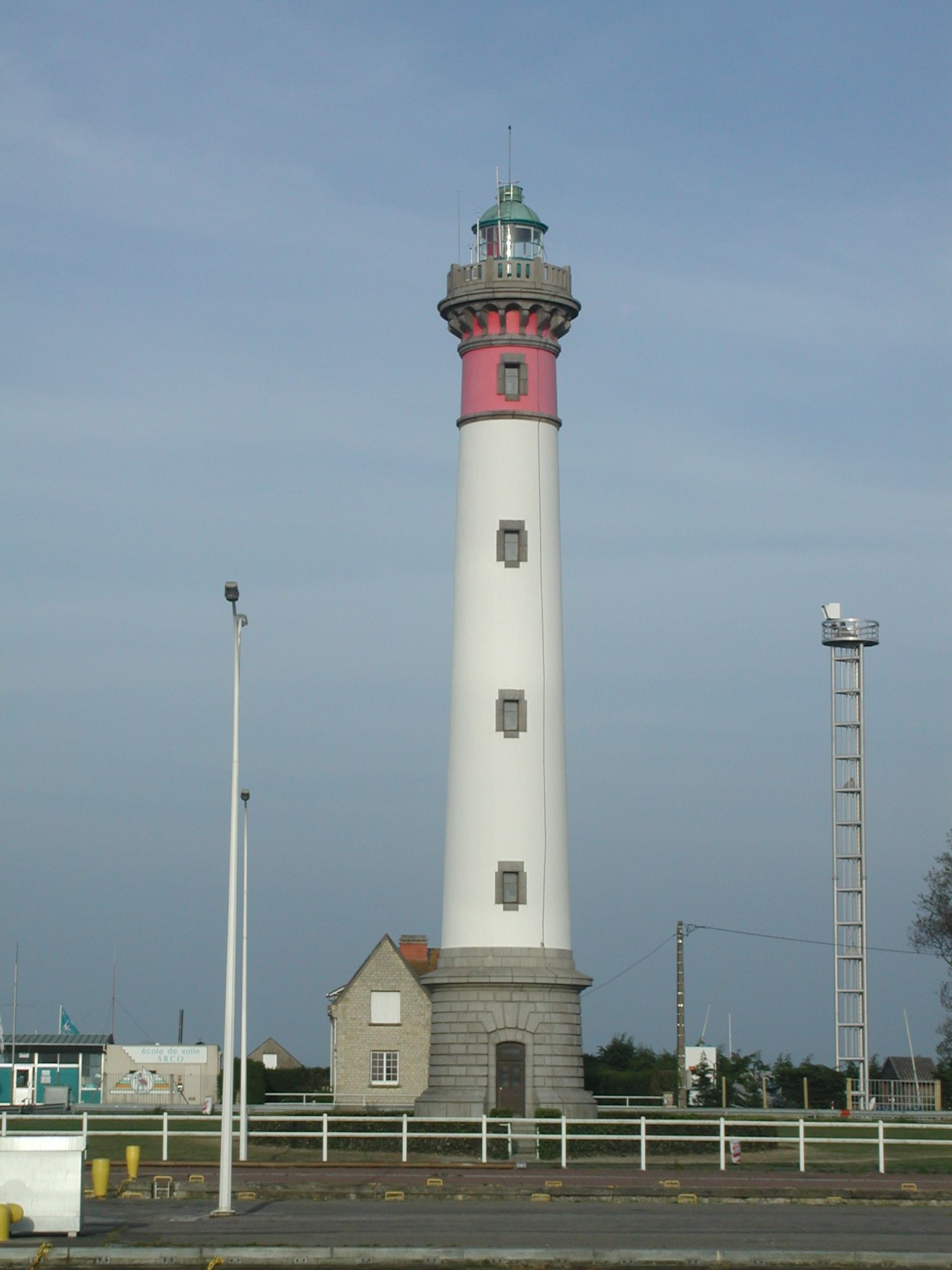 The lighthouse of Ouistreham